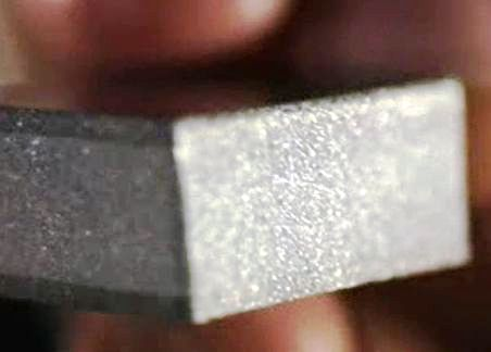 Image is a screen capture from a public domain video posted on YouTube.